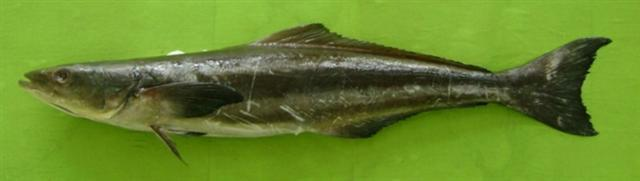 Rachycentron canadum collected in Karachi, Pakistan